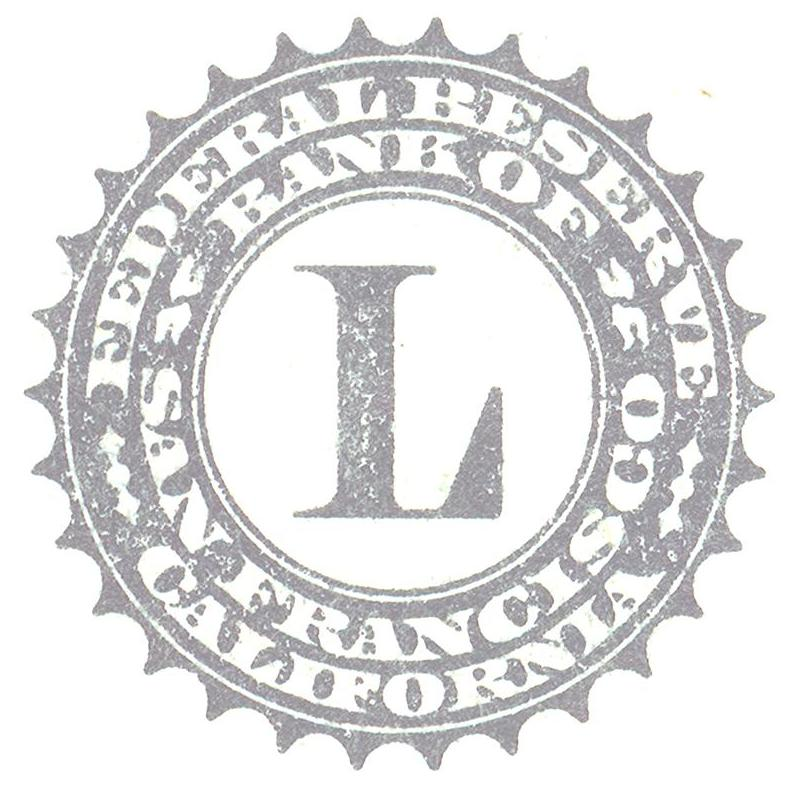 This image is cropped from a full frame image of the US One Dollar Bill, reused from Wikimedia Commons: United States one dollar bill.jpg